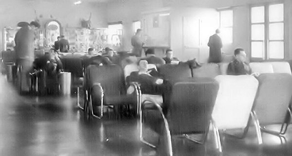 USAF Photo of Orly Air Base MATS waiting room.